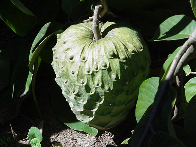 Cherimoya's cultivar, known as "Anona da Madeira" (Annona cherimola Mill.)